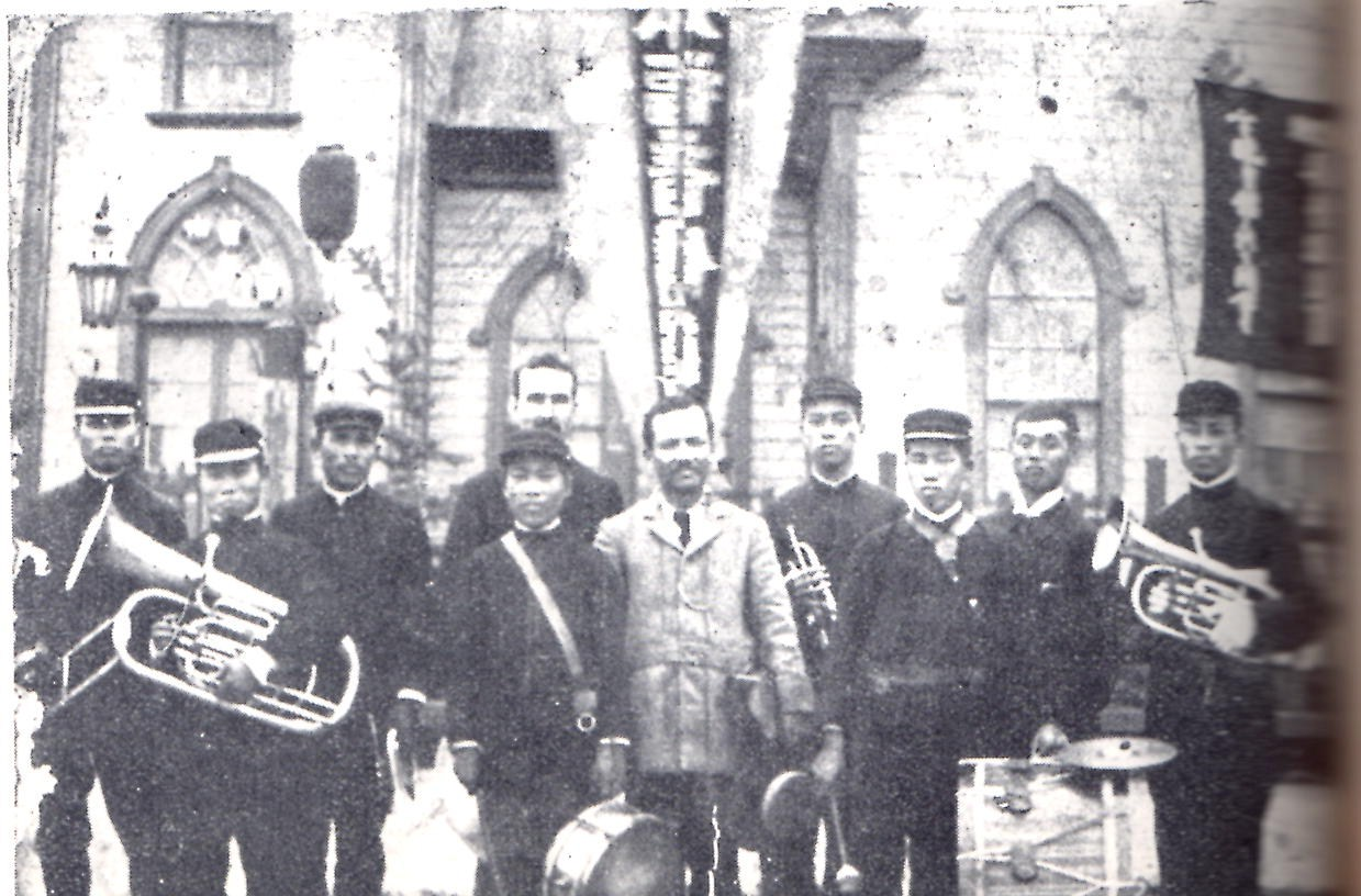 A photo of Evangelisim Music Band which is consisted by Student of Bible School in Kanda. They met together in fornt of Hirosaki Church in 1902. Bishop Juji Nakada was a leader of this team